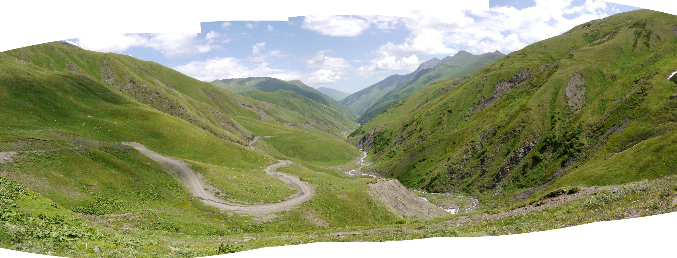 Looking north down the valley of the Argun River towards Shatili and Chechnya from the Bear-Cross Pass